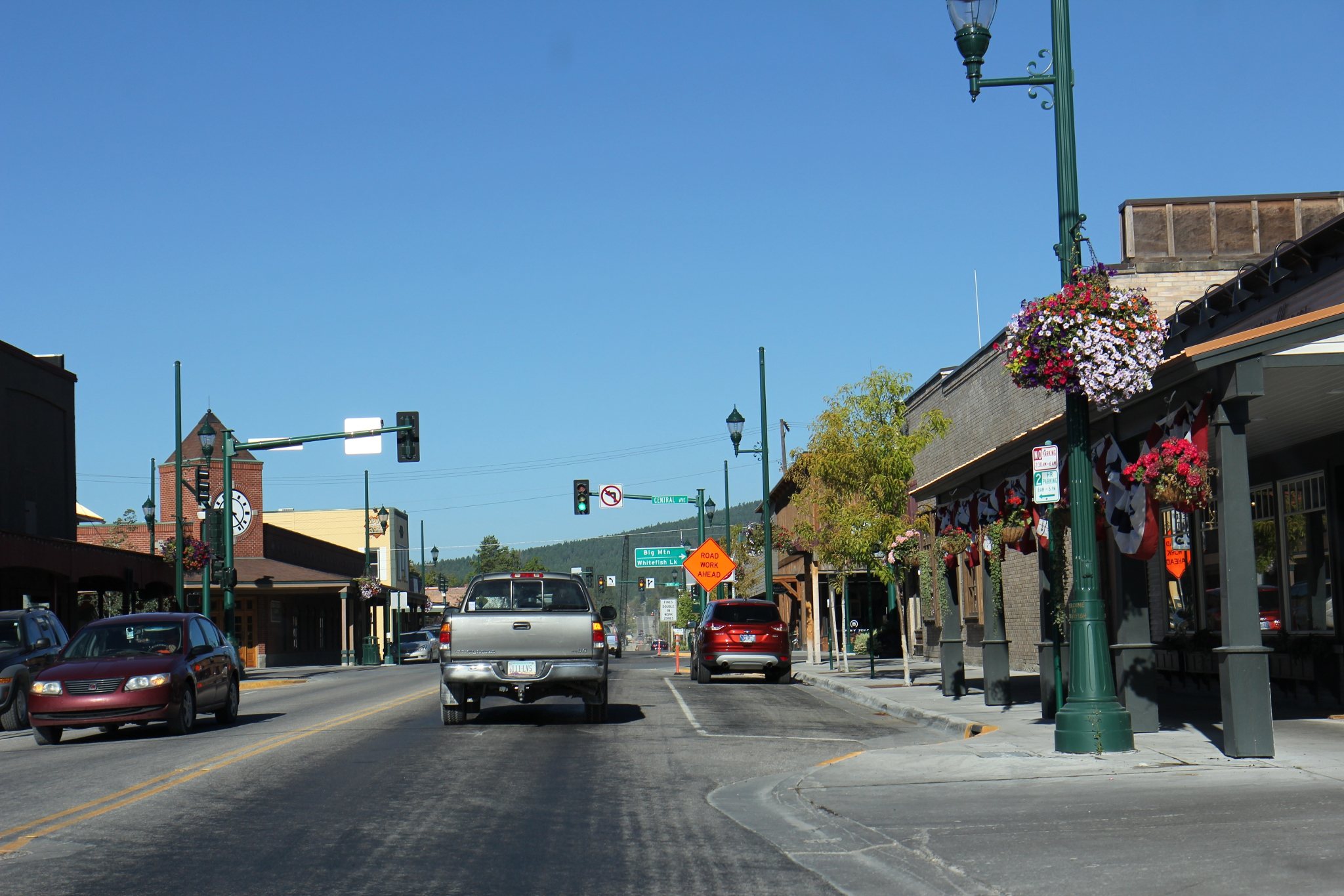 Looking north in downtown Whitefish, Montana on U.S. Route 93.